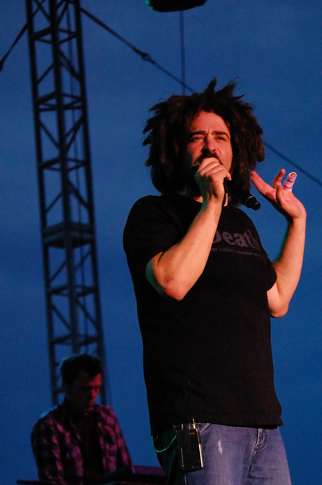 Adam Duritz with Counting Crows performing live on the levee 2009 St. Louis, Missouri Magnolia Summer opening for Counting Crows